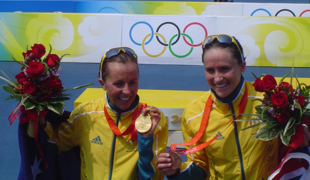 Emma Snowsill and Emma Moffatt after the medal ceremony at the 2008 Summer Olympics.